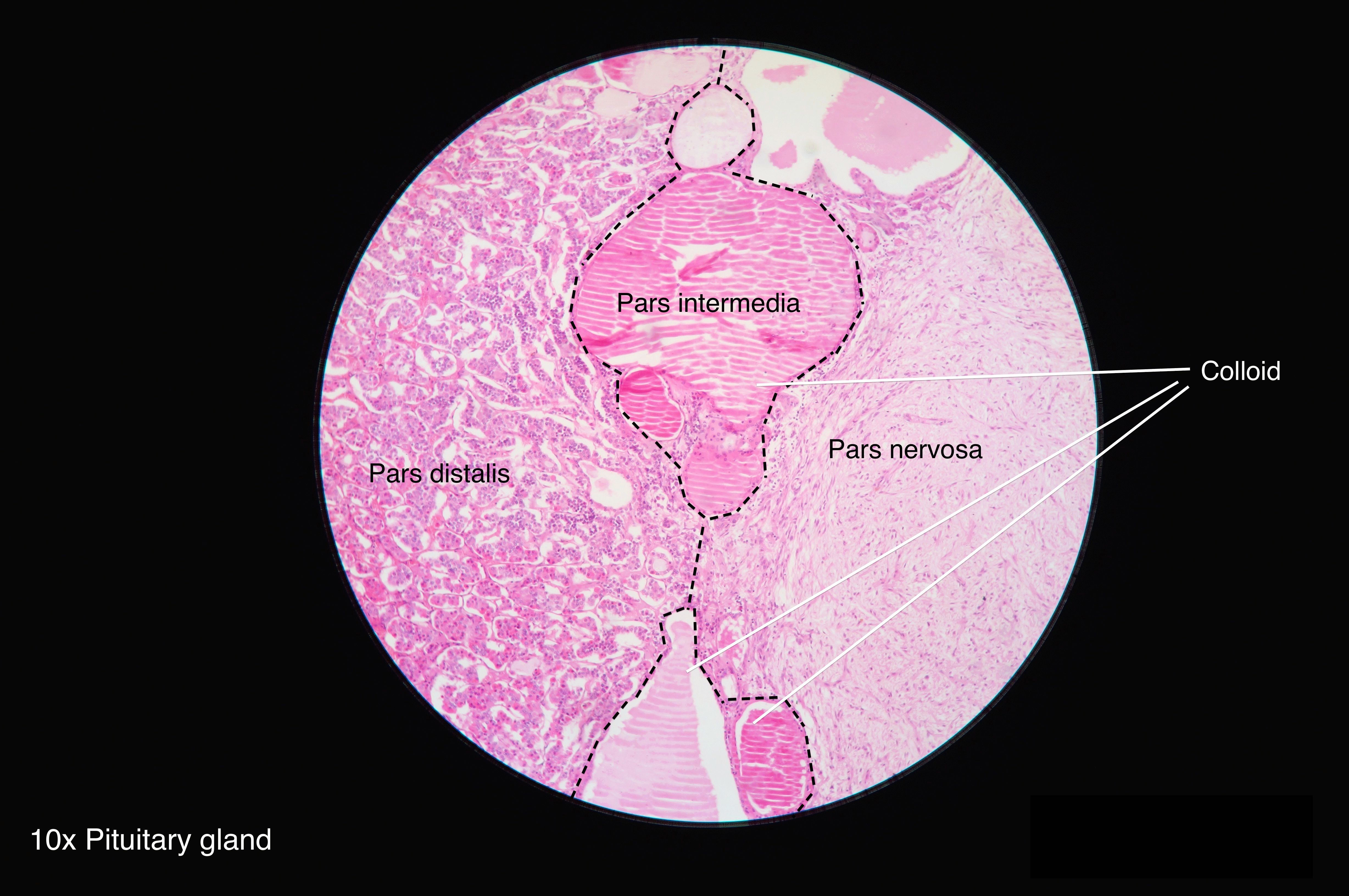 Histology of pituitary gland